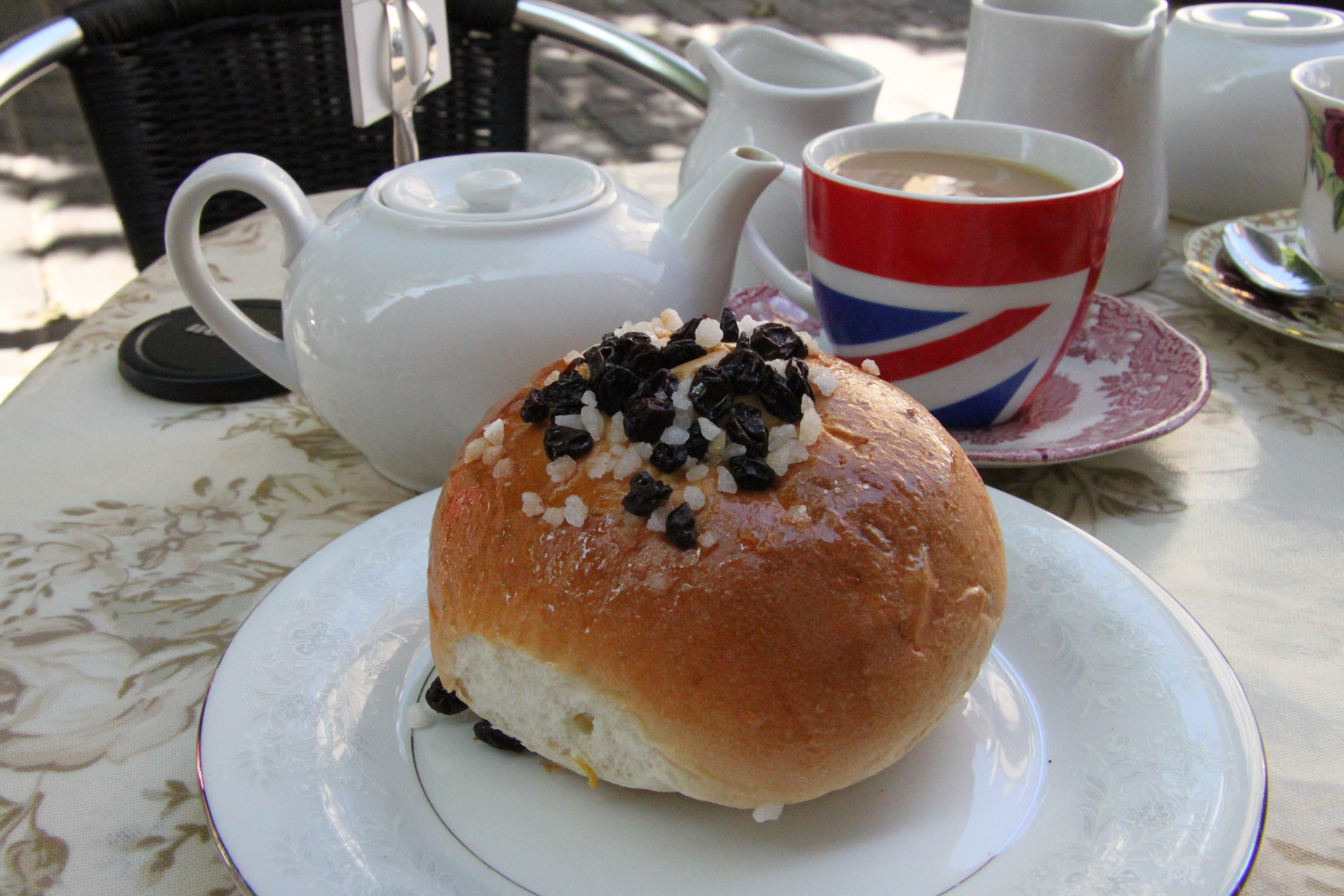 Culture... a bath bun and a pot of tea, Bath, United Kingdom